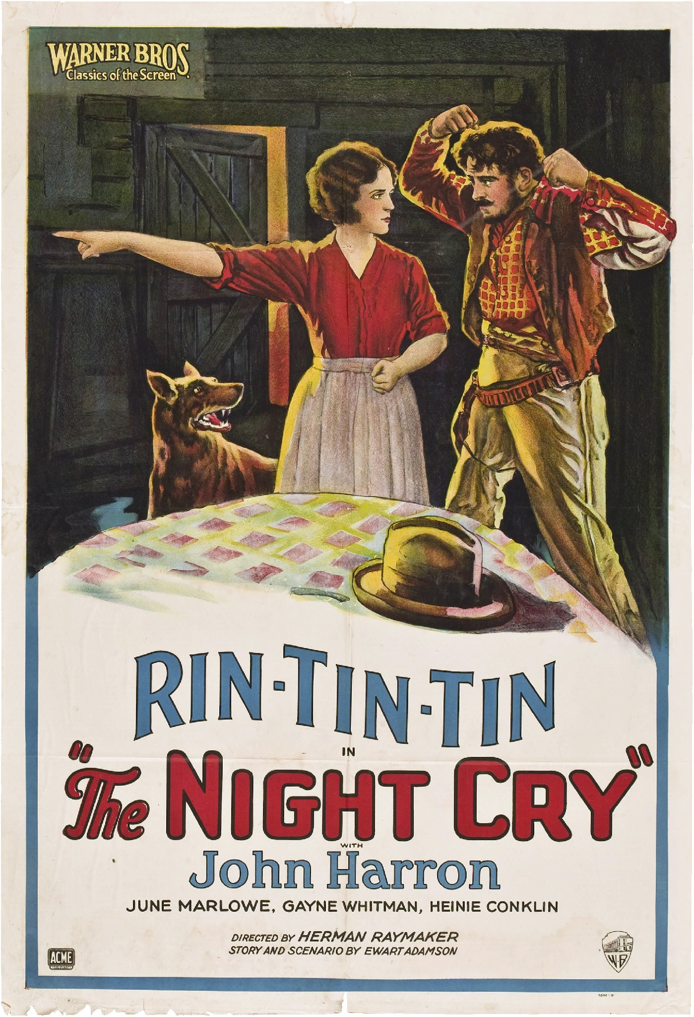 Poster for the American film The Night Cry (1926). The item has no copyright markings on it as can be seen in the links above. At bottom right is 12844-B and at bottom left is a logo for the Acme Litho Corp-they printed the poster.